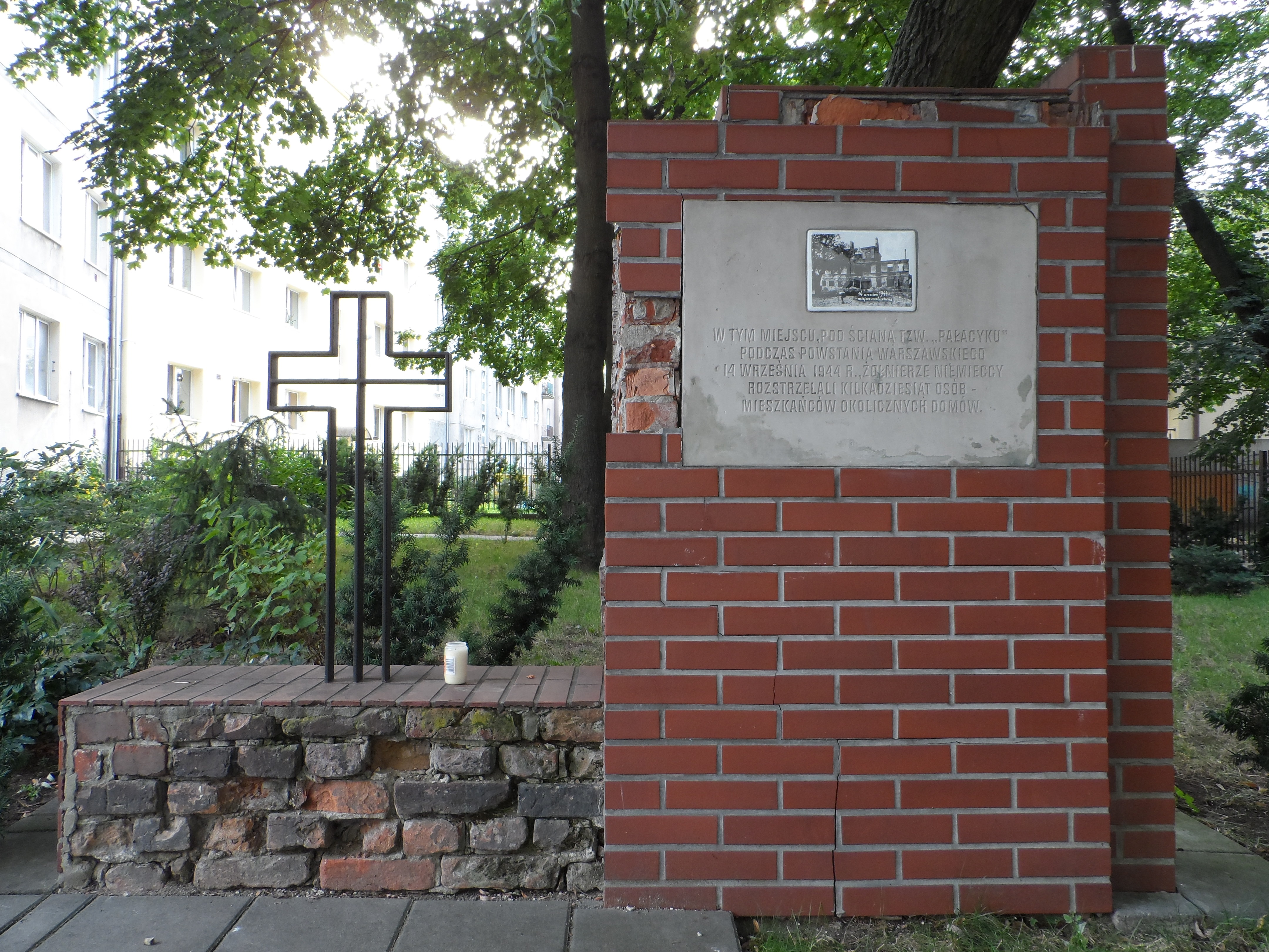 Plaque at 2B Bieniewicka Street in Warsaw (inside the yard, at piece of wall from former Marie Casimire Palace), commemorating tens of Polish civilians murdered in this place by German troops during the Warsaw Uprising (14th September 1944).